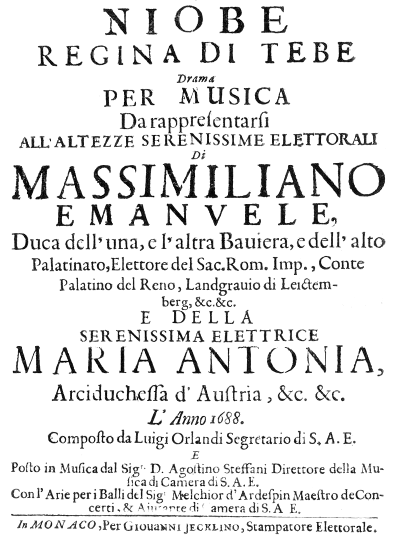 Agostino Steffani - Niobe, regina di Tebe - titlepage of the libretto, Munich 1688